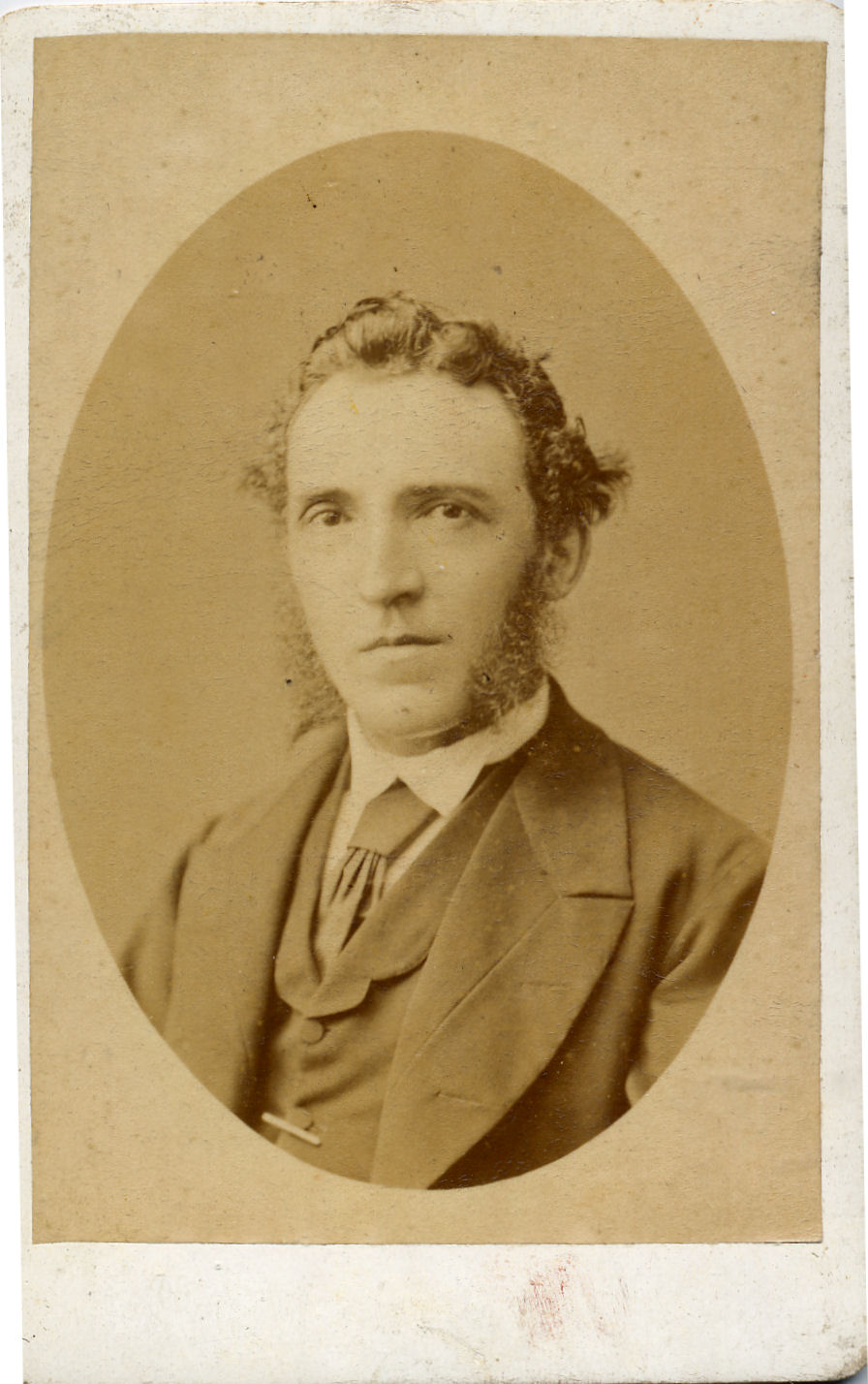 COLLECTIE_GROENEVELT-reformed Dutch minister Willem Christiaan Groenevelt- 1870